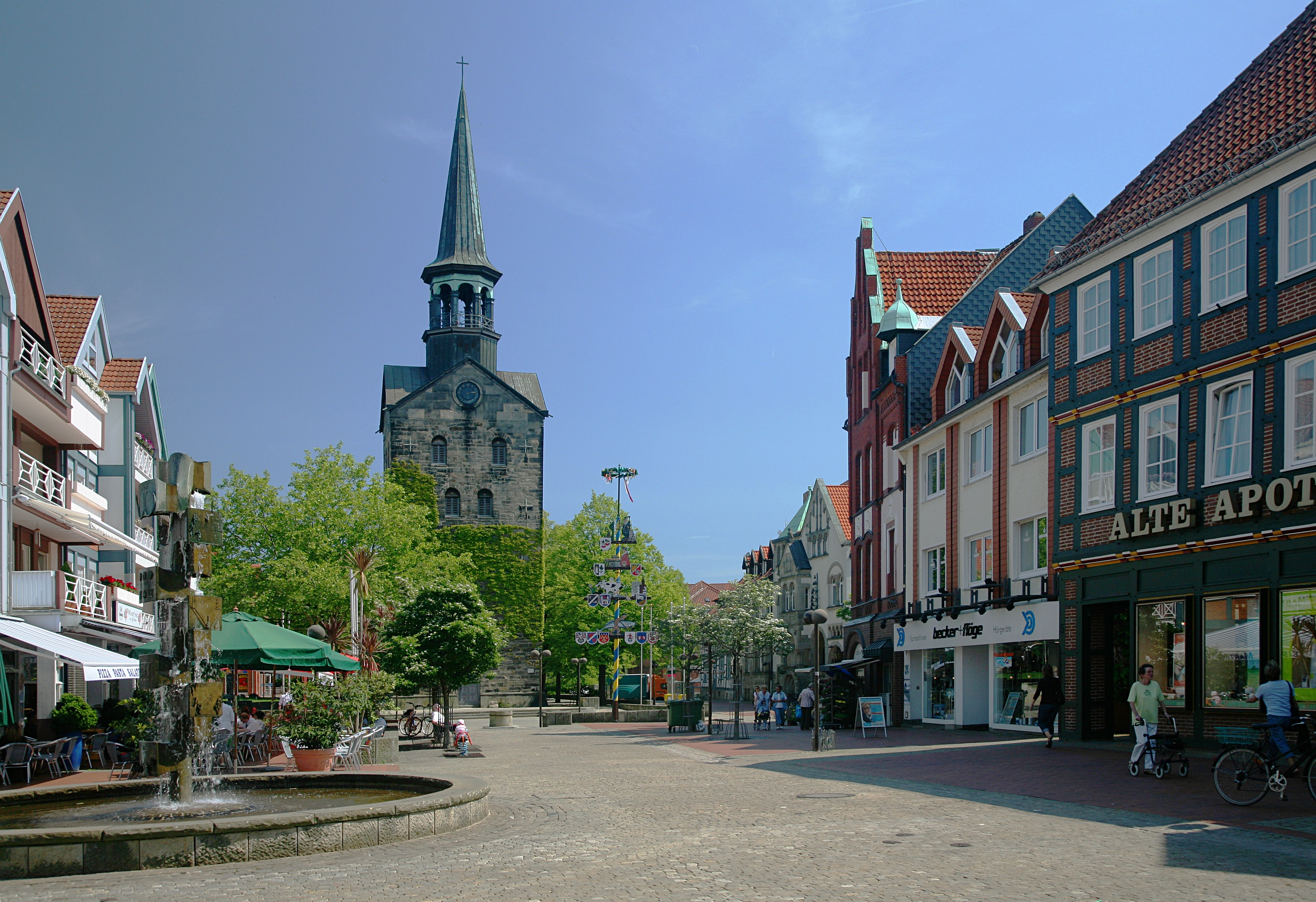 Pedestrianzone, Wunstorf, Germany